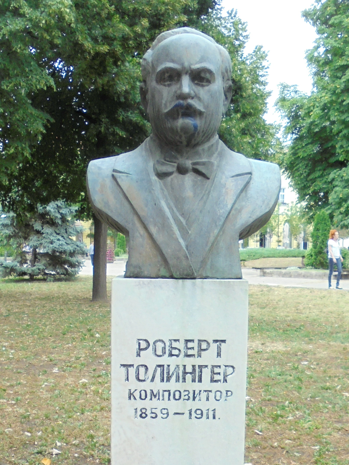 Bust statue of composer and conductor Robert Tolinger. Author academic sculptor Slobodan Kojic.